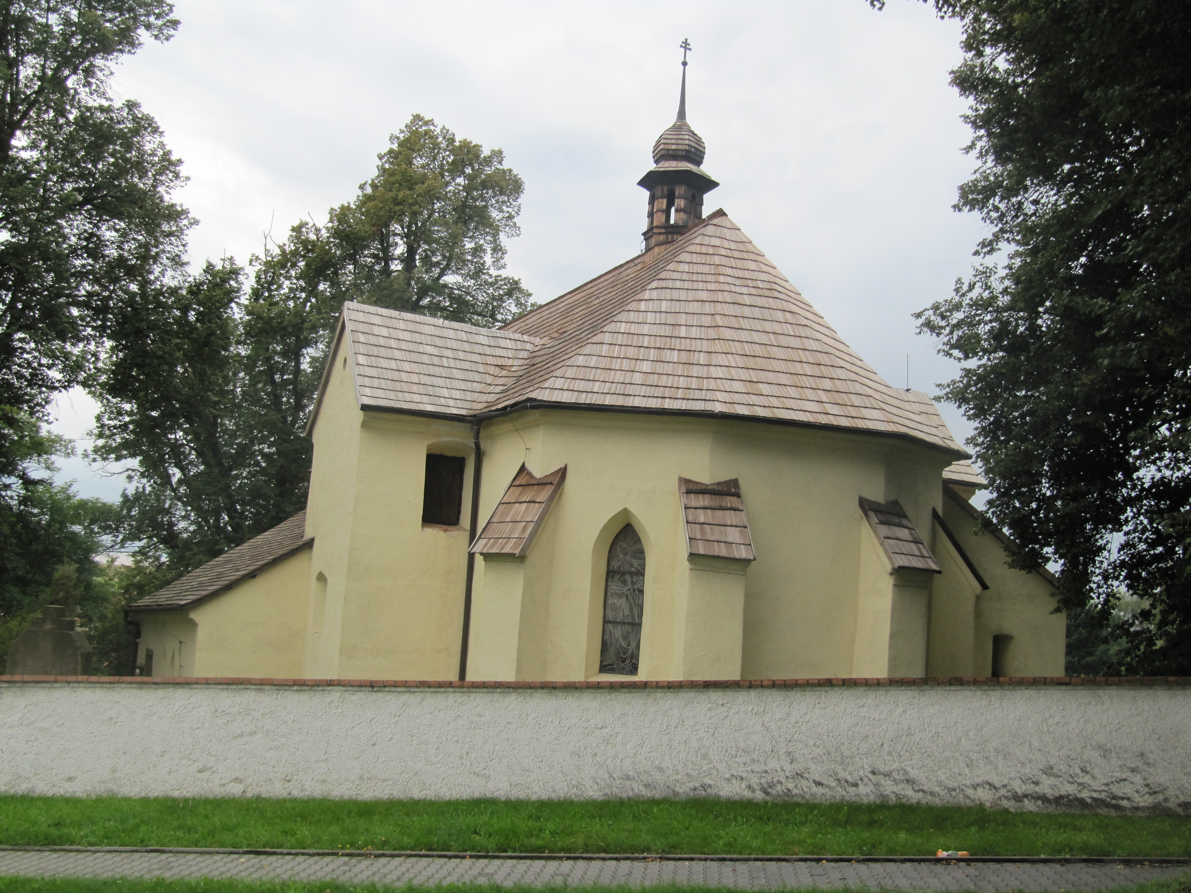 Jinošov in Třebíč District, Czech Republic.Peter and Paul-church.